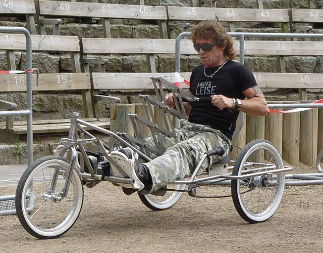 Driving fitness machine in action, here: rowing